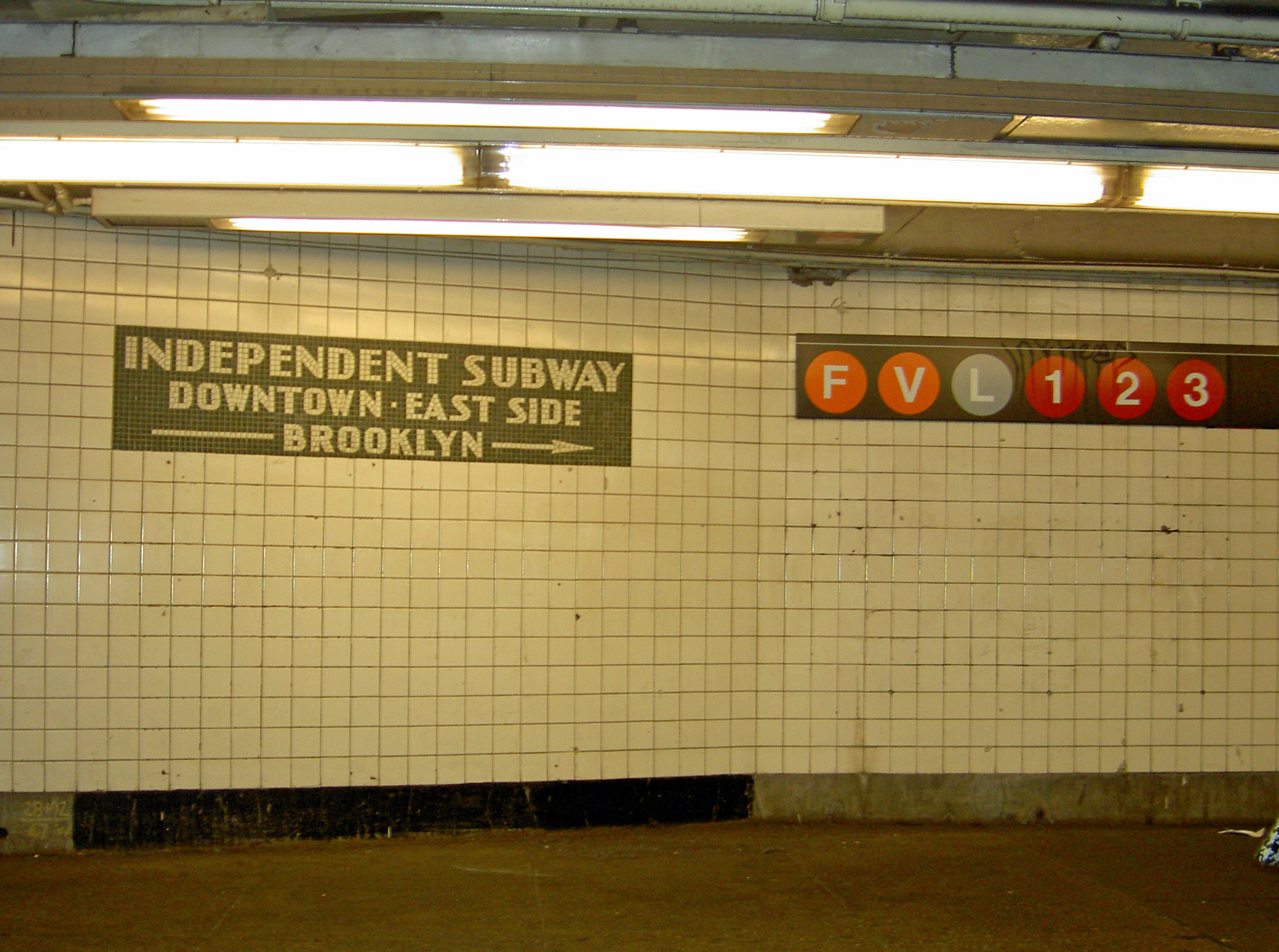 Independent Subway sign at 14th Street Station by David Shankbone